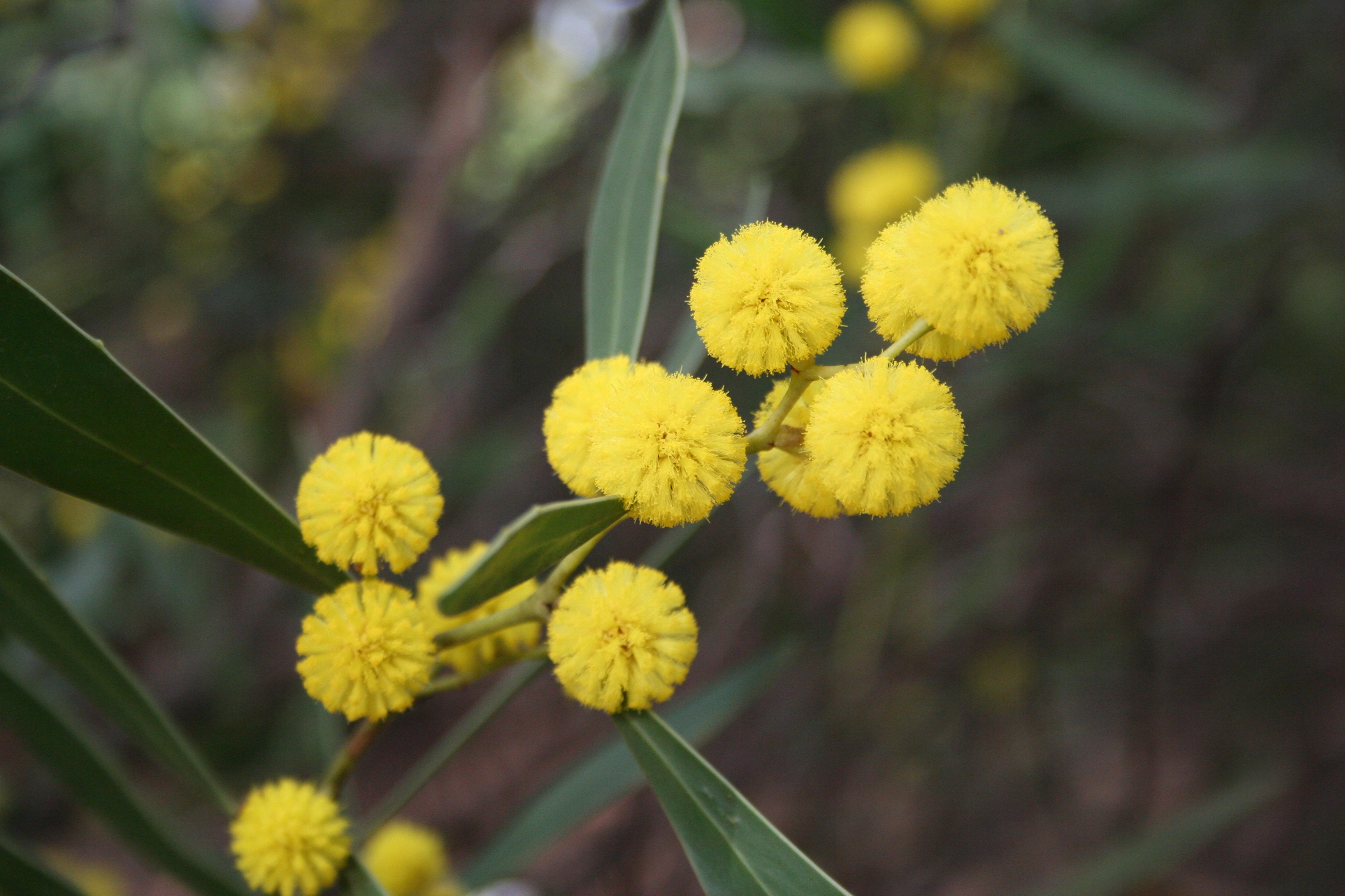 Acacia beckleri flowers, Maranoa gardens, Balwyn in Melbourne